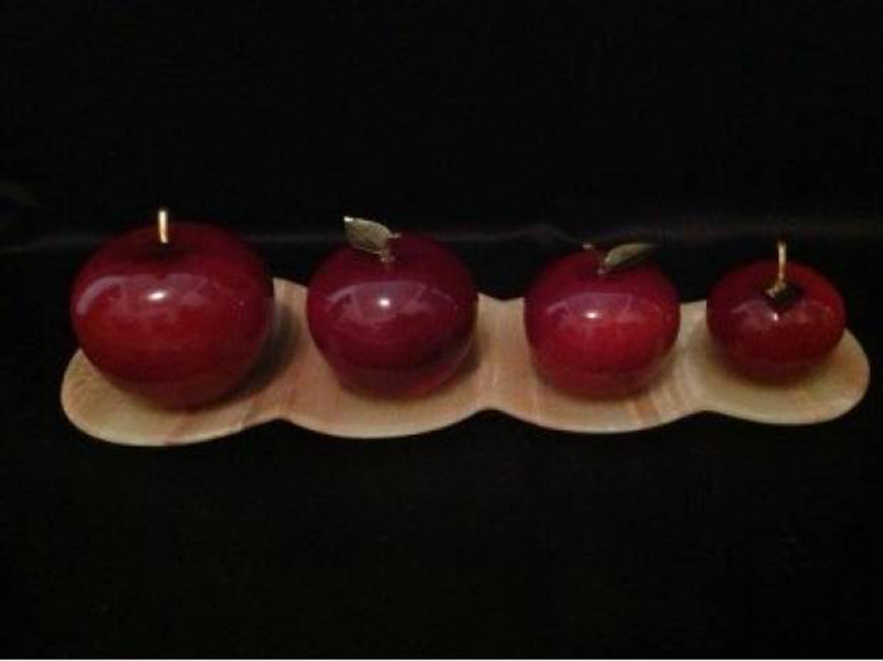 Handicraft (Red onyx)